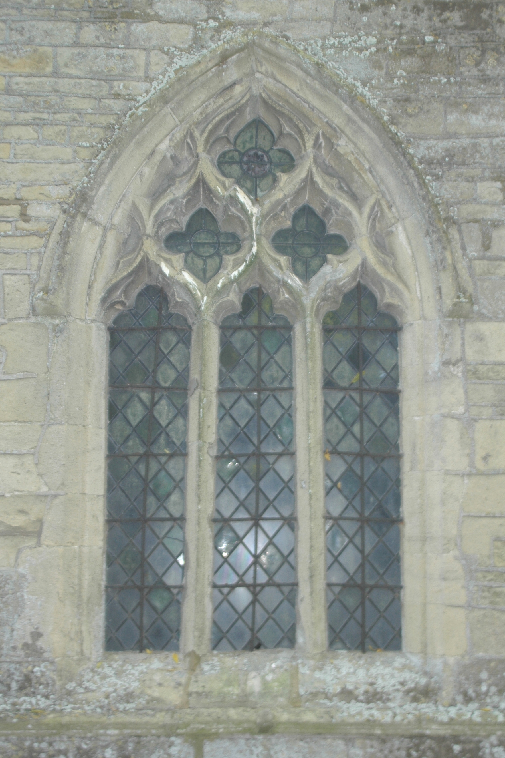 Church of England parish church of St Peter, Easington, Oxfordshire: east window with ogee tracery